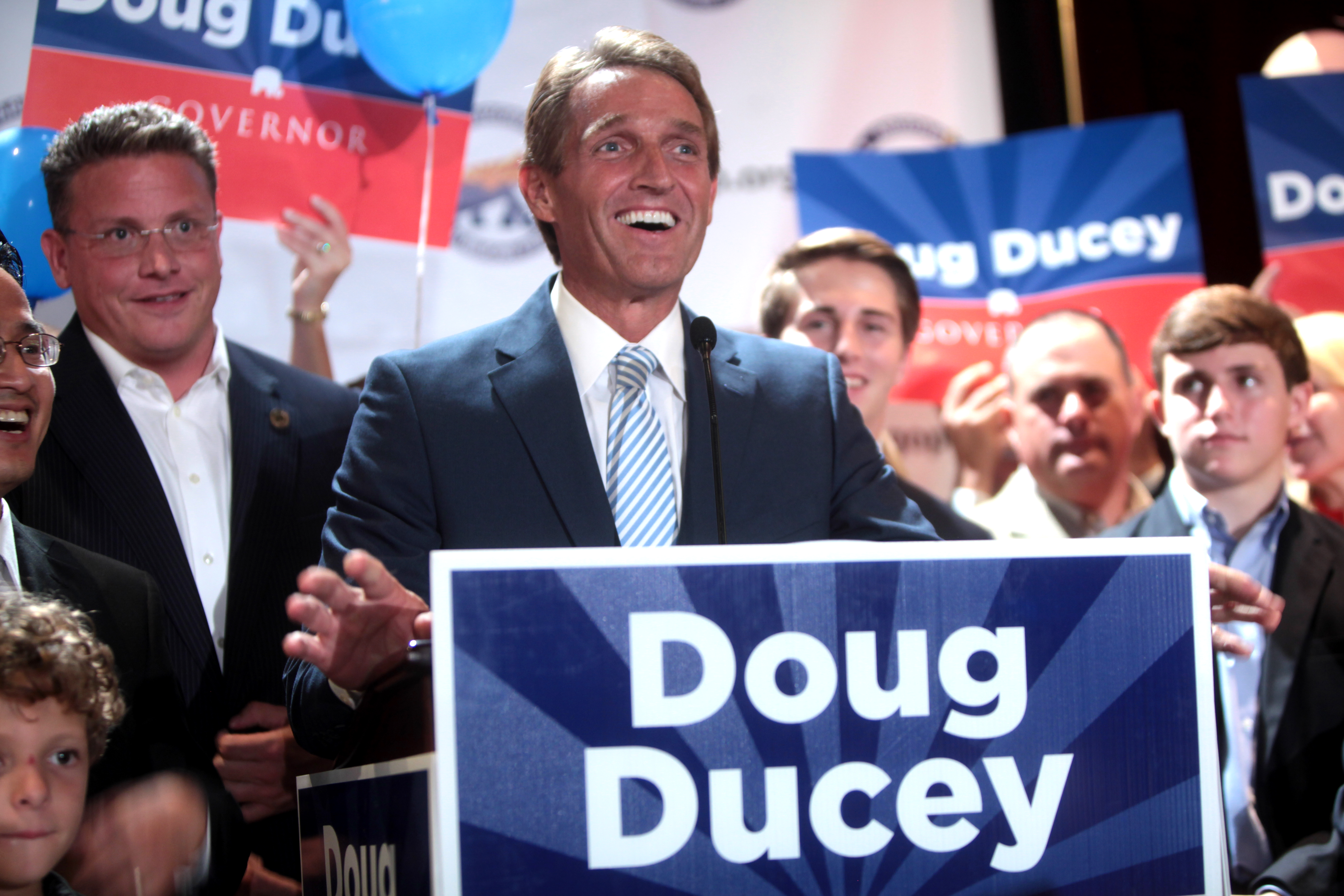 Jeff Flake speaking at a campaign rally in Phoenix, Arizona.